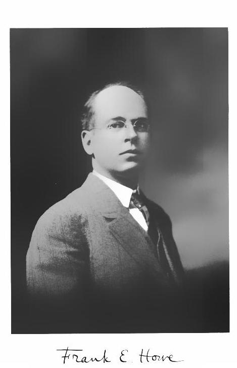 Frank Edmund Howe (October 2, 1870 – July 20, 1956) was a Vermont newspaperman and politician who served as Lieutenant Governor from 1913 to 1915.